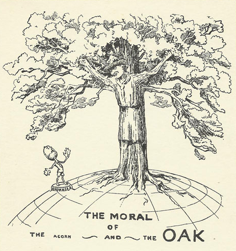 Robert Baden Powell sketch depicting the "Moral of the acorn and the oak"